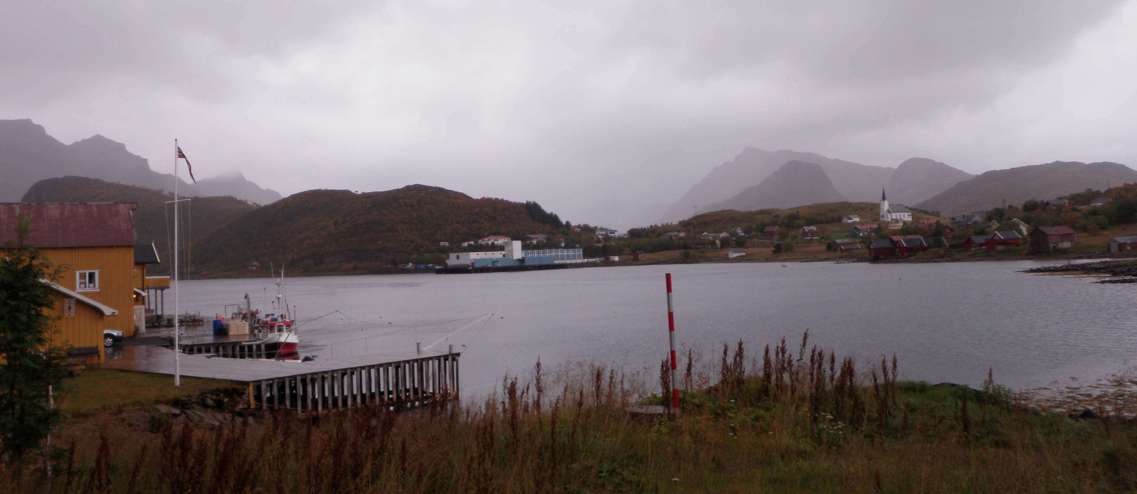 The village of Eide in Bø, Nordland, Norway. Åsand Brygge tourist centre in the left foreground.